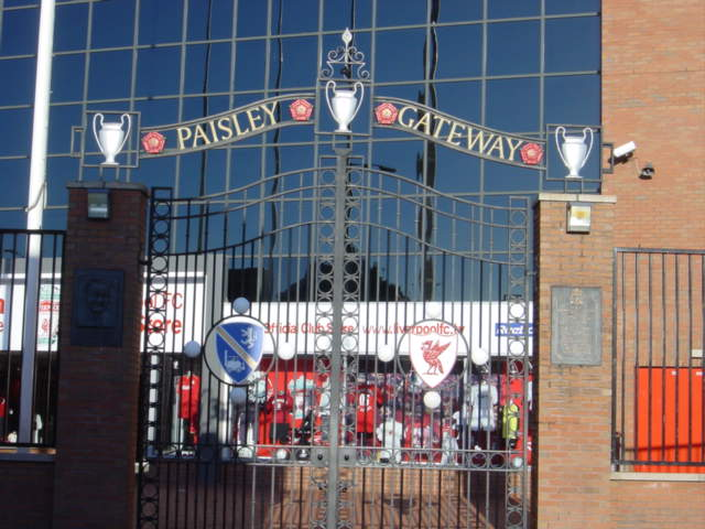 Paisley Gateway, Anfield.